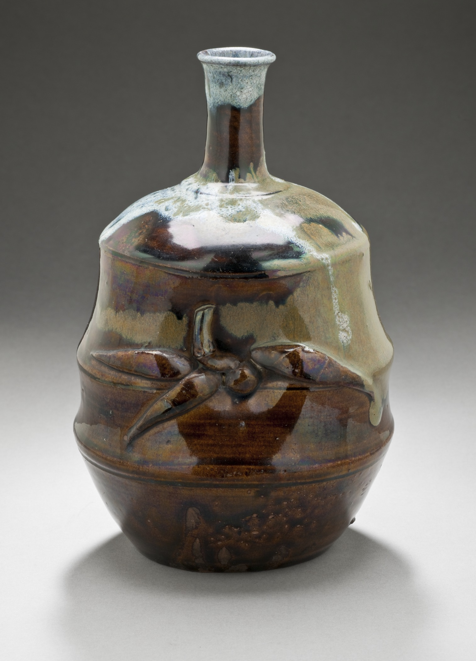 Japan, Edo period, late 17th-early 18th century Alternate Title: Tokkuri Furnishings; Accessories Shōdai ware; stoneware with brown and white glazes Gift of James D. and Veronica H. Roorda (M.2007.226.16) Japanese Art